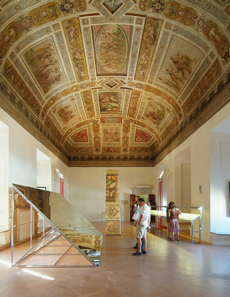 Este Castle of Ferrara, The Hall of the Games